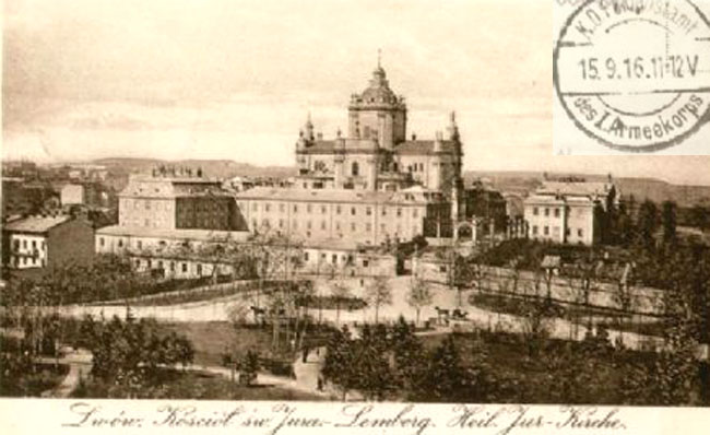 Cathedral of Saint George, Lviv, 1916